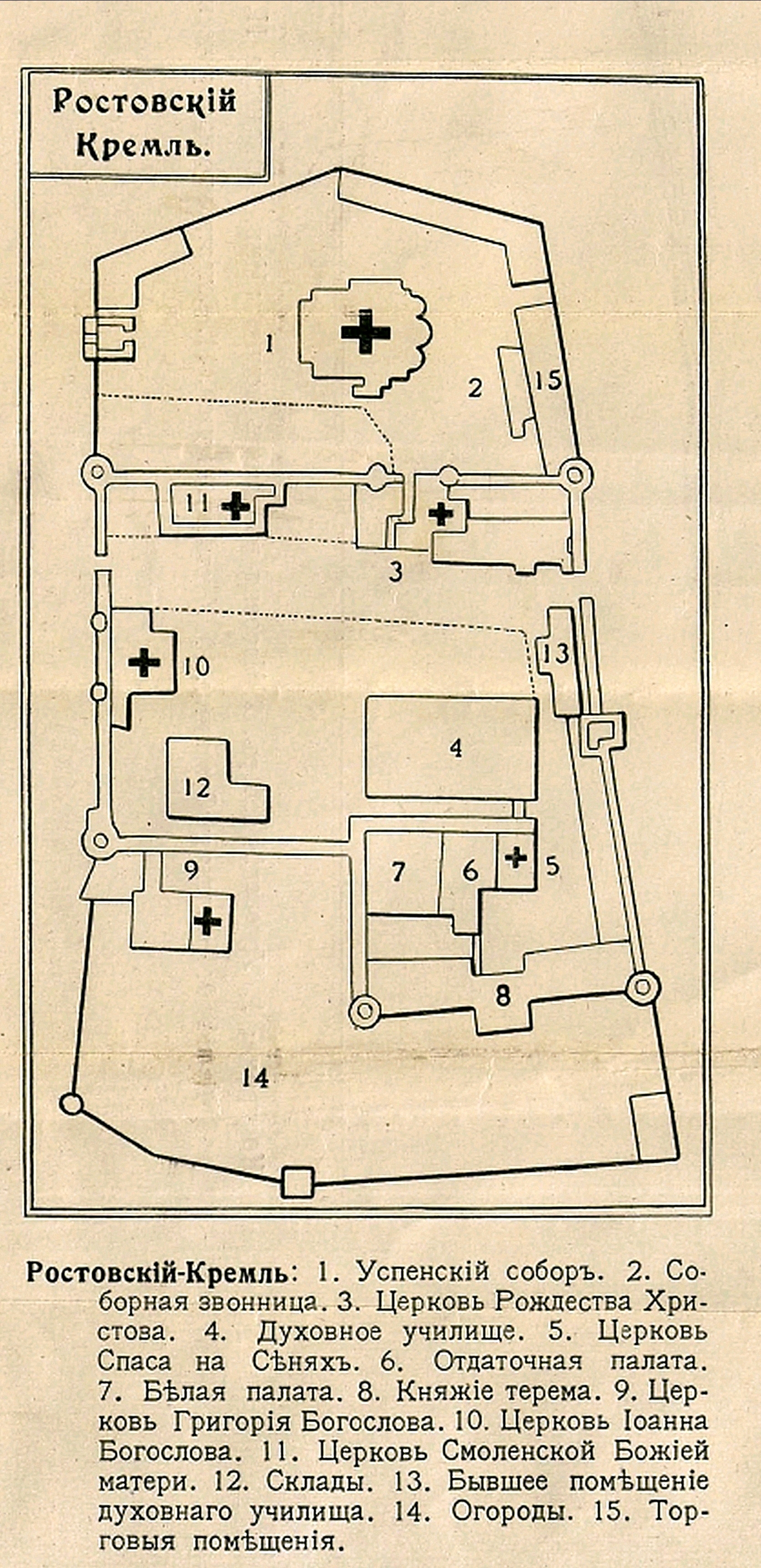 The plan of Rostov Kremlin as of 1913